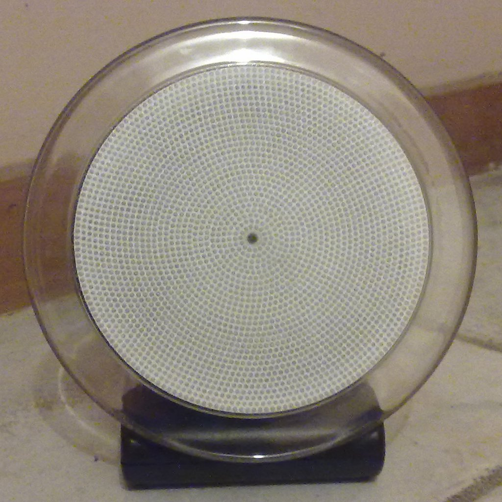 Crackle tube – a battery powered (4 AA) Luminglas panel, turned off